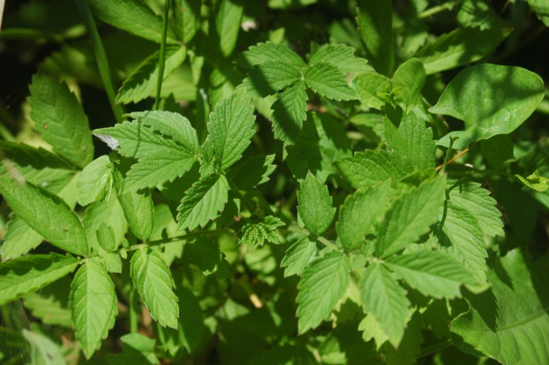 Described as Agrimonia pilosa, but probably wrong – base of leaflets should be narrow (100 % yes, grown from seeds from the botanical garden).